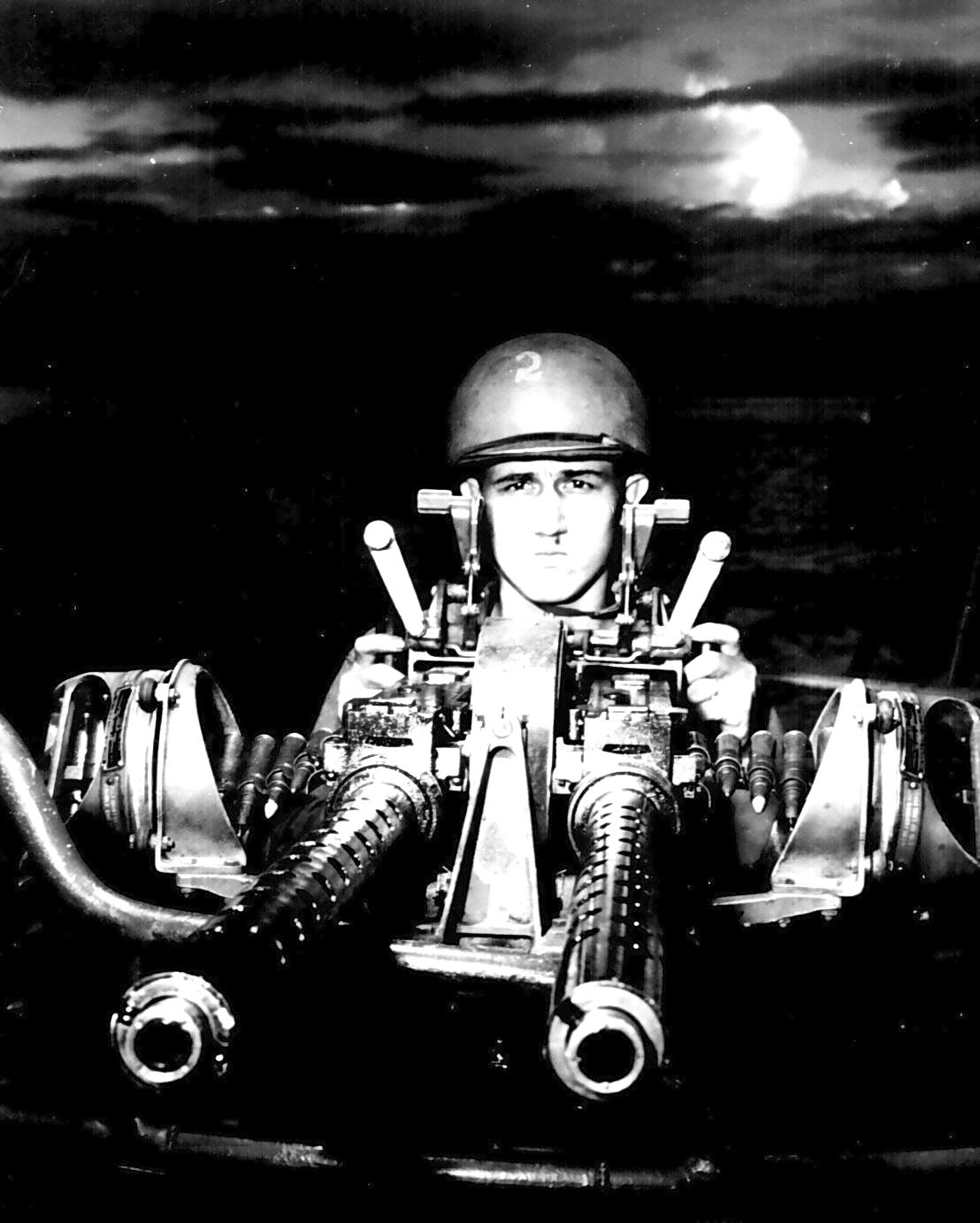 Original description: "A PT marksman provides a striking camera study as he draws a bead with his 50 caliber machine gun on his boat off New Guinea. July 1943"